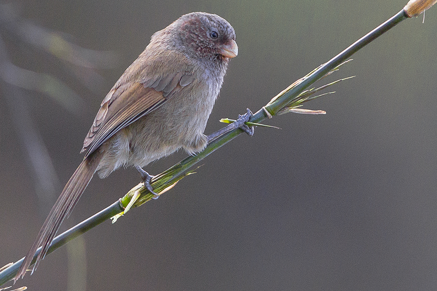 The specie Brown Parrotbill had been photographed at Zuluk, East Sikkim, Sikkim, India during the birding trip of GoingWild on 24.04.2015.